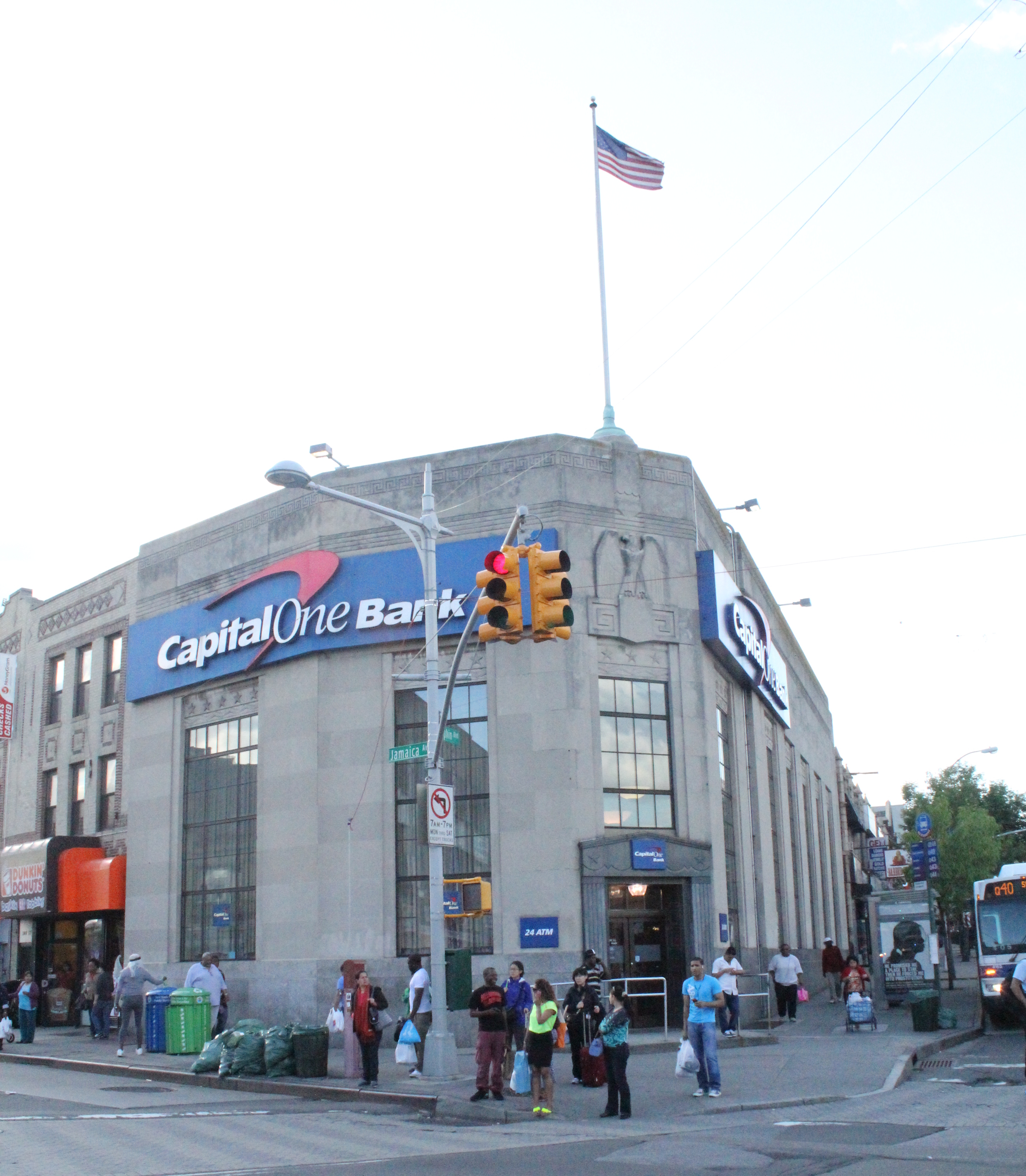 Former Jamaica Savings Bank branch in Jamaica, Queens, New York City. Now a Capital One branch at Jamaica Avenue and Sutphin Boulevard, northwest corner.